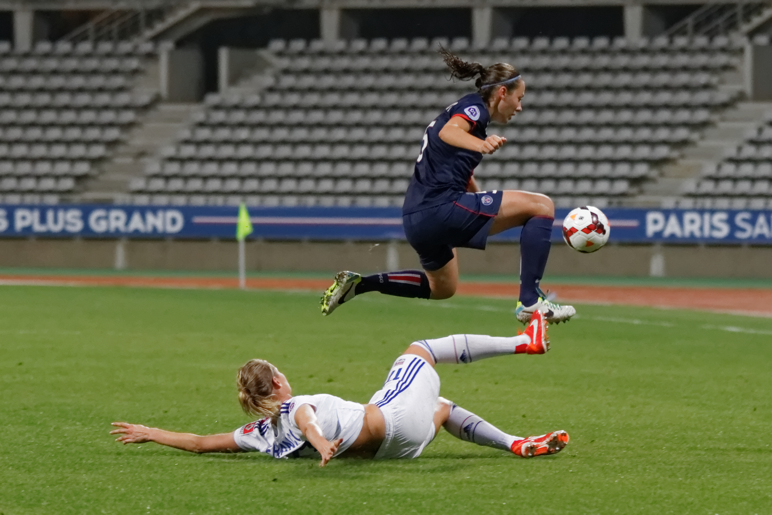 PSG-Lyon, September 29th, 2013. Slide tackle of Corine Franco (Lyon) on Sabrina Delannoy (PSG).